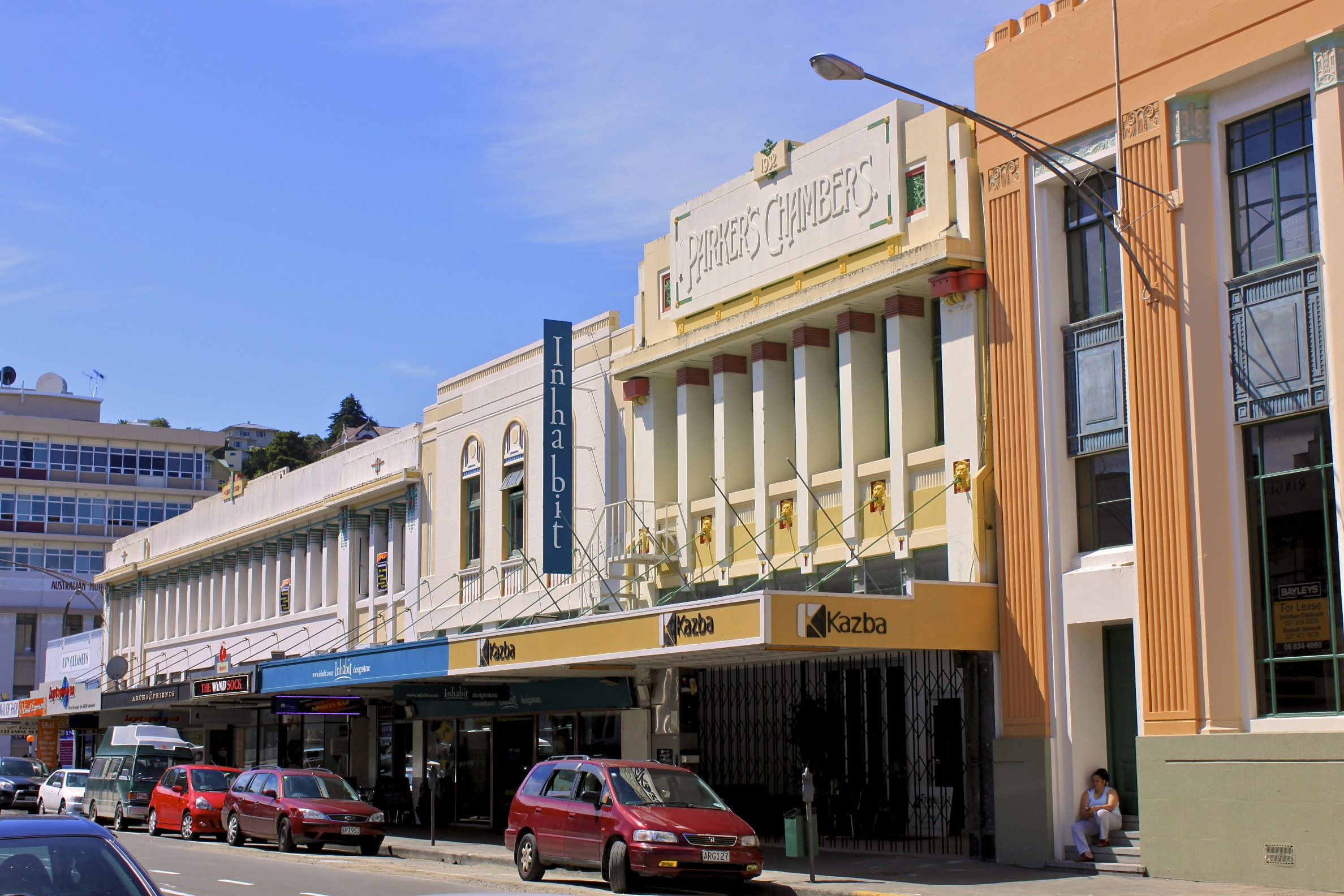 4 February 2012 - Parker's Chambers Building; 24a Hastings Street frontage. Designed by JA Louis Hay in the Art Deco Style with influence from Frank Lloyd Wright. Original building was built in 1929 and after the 1931 earthquake was reconstructed and completed in 1932. Napier, NZ.